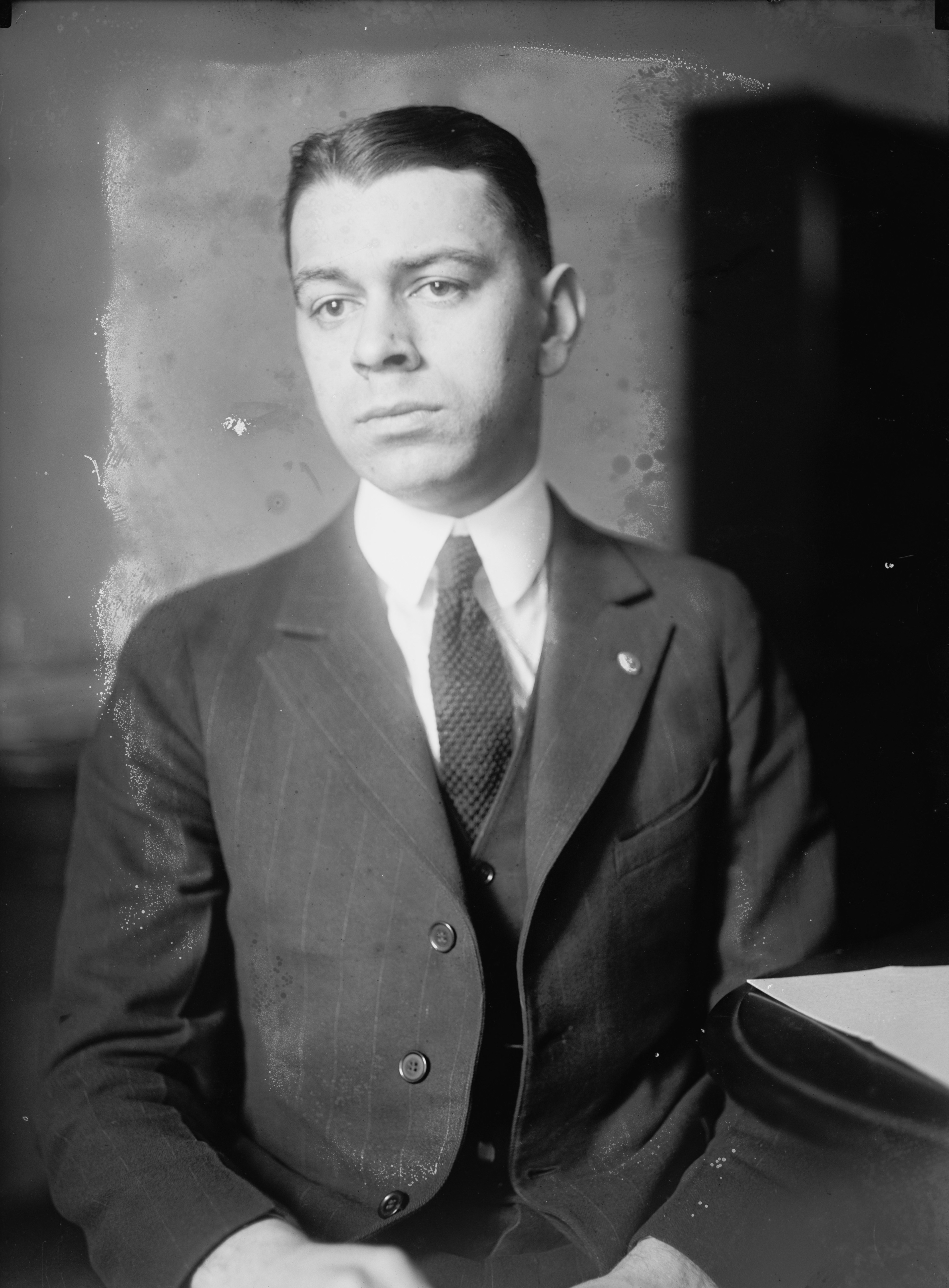 Title: Clarence J. McLeod, 12/8/20 Abstract/medium: 1 negative : glass ; 5 x 7 in. or smaller